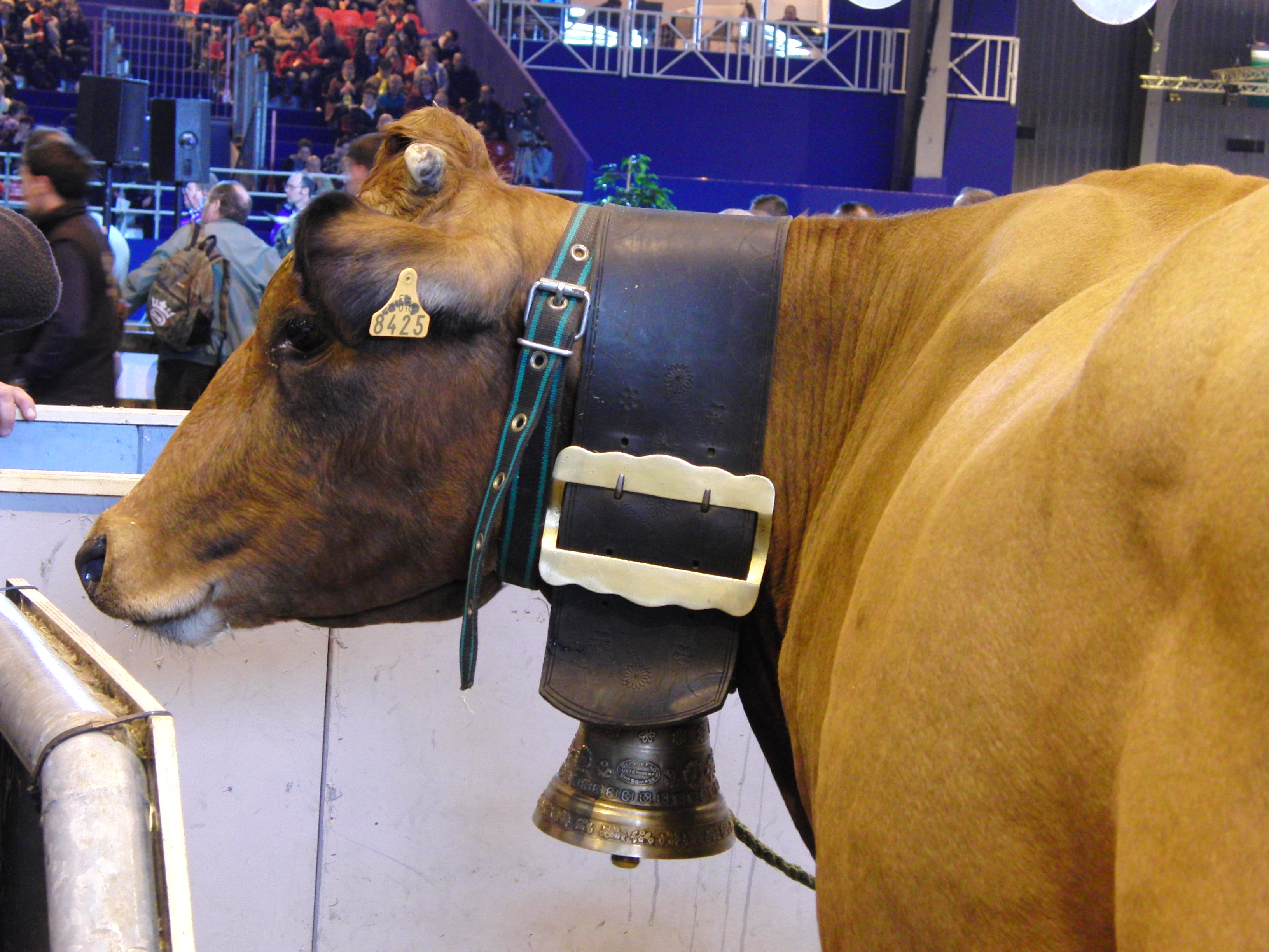 Tarentaise cow - Paris International Agricultural Show 2012, Paris, France